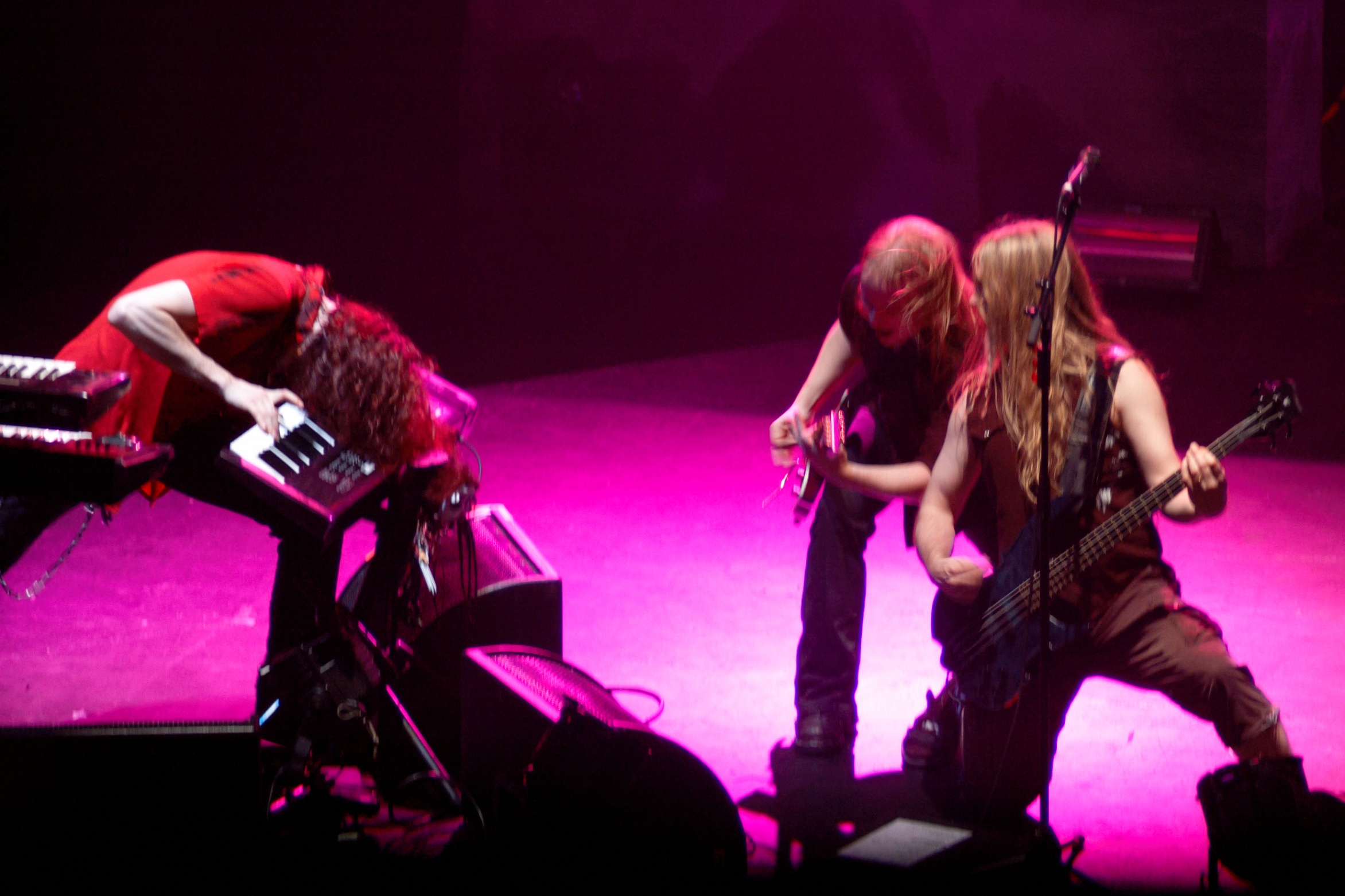 Nightwish Finnish metal band concert at The Palais, Melbourne.